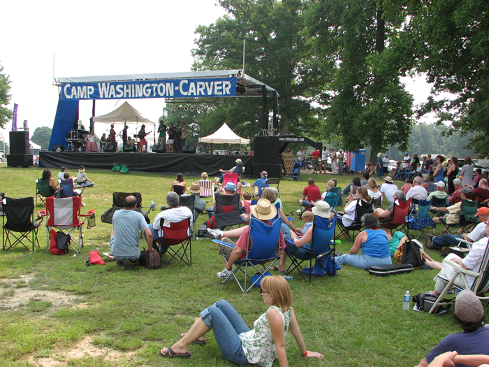 The main stage at the Appalachian String Band Music Festival. Photo taken at the 2007 Appalachian String Band Music Festival, at Camp Washington-Carver in Clifftop, United States, with a digital camera.